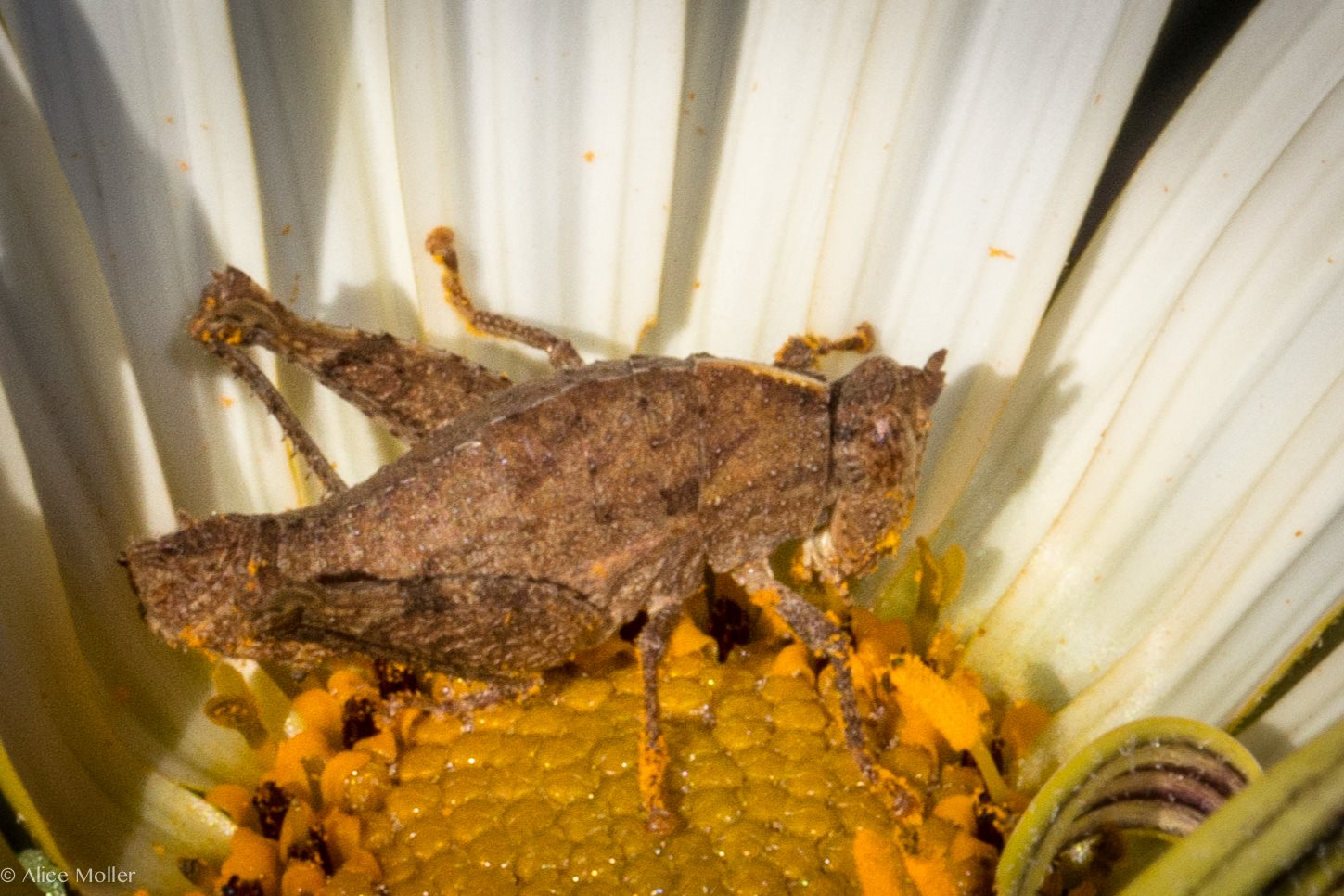 Undescribed Thericleidae in a seasonal flower in Western Cape, South Africa.